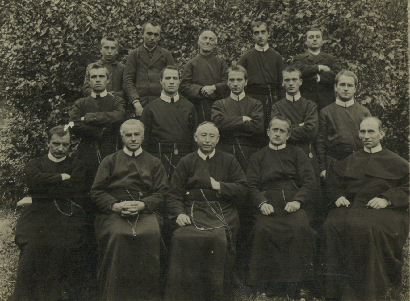 Збоїська, 26 жовтня 1919 р. Спільнота монастиря у Збоїсках.Сидять: о. Станіслав Некуля, о. Ектор Кінцінгер, о. Йосиф Схрейверс, о. Домінік Трчка, о. Жак Де Бур; другий ряд: нов. о. Григорій Шишкович, нов. о. Миколай Чарнецький, о. Степан Бахталовський, ст. Іван Бала, нов. Володимир Породко; третій ряд: ?, кан. Роман (Герард) Жовнір, бр. П'єр (Іполит) Делануа, нов. Роман Бахталовський, ?.